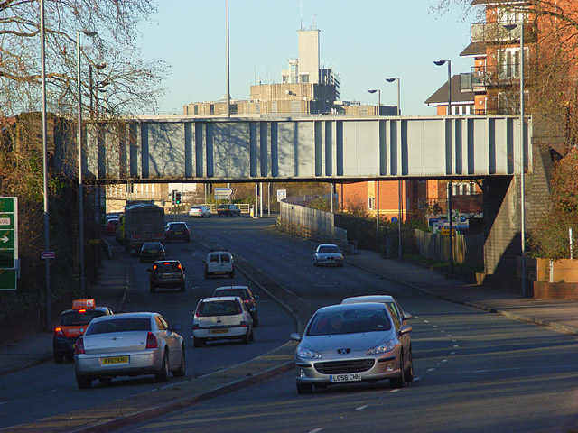 The A33 Relief Road in Reading, passing beneath Berkeley Avenue (the A4) on its way to its intersection with the town's Inner Distribution Road (IDR). The design of the bridge here is a clue to the fact that the it once spanned railway tracks. The road here follows the line of the old railway branch to Coley, which served sidings situated on the site of the current IDR junction.